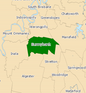 Electoral district of Sunnybank (Queensland, Australia)